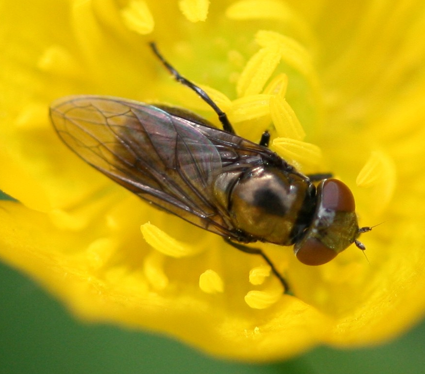 a female Chrysogaster virescens